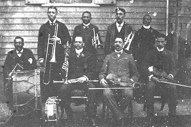 The John Robichaux Orchestra of New Orleans, 1896. Front row, seated, left to right: Dee Dee Chandler, drums; Charles McCurdy, clarinets; John Robichaux, violin & leader; Wendell MacNeil, violin. Standing: Baptiste DeLisle, slide trombone; James Wilson and James MacNeil, cornets; Oak Gaspard, string bass.